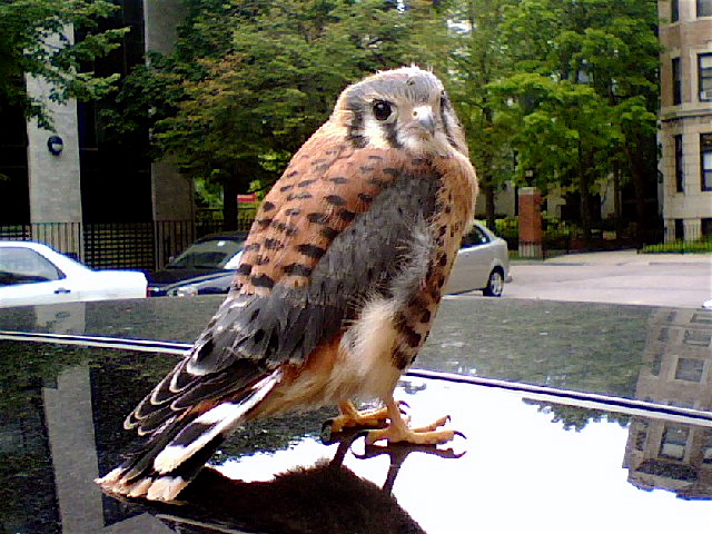 Juvenile kestrel on a car in downtown Boston, Massachusetts